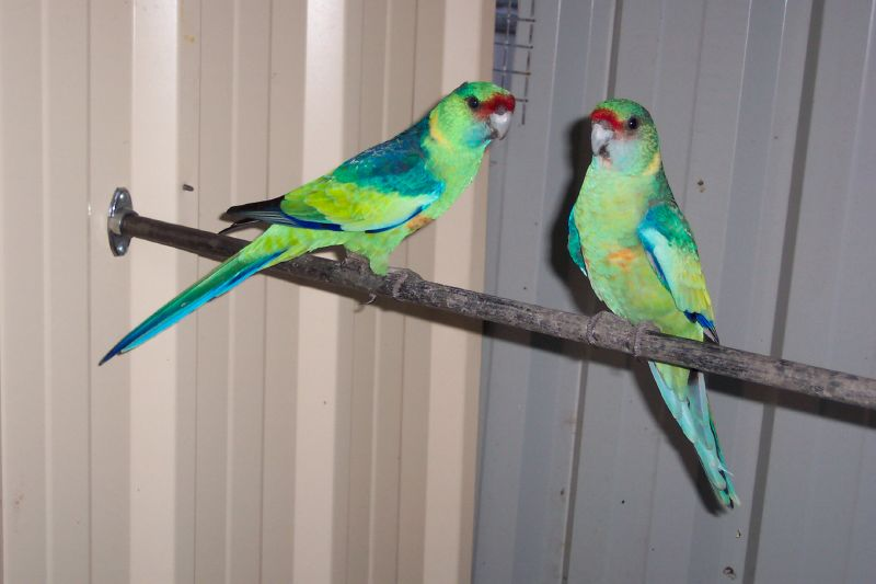 Mallee Ringneck, Australian Ringneck (Barnardius zonarius barnardi) male and female.